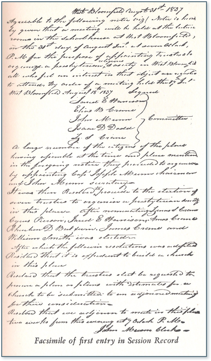 The first clerk of Session, John Munn, steadfastly remained at this post for 25 years. The early records of the church were pristinely maintained by John Munn’s fastidious attention to detail.